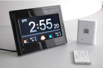 A new digital photo frame with weather station function is released. You can upload digital photo into this photo frame. Plus you can forecast the weather report. For those people who would like to have outdoor activities. This piece of electronic appliance is very suitable for them. As it can indicate the outdoor and indoor temperature, it can be an outstanding display at home as well.